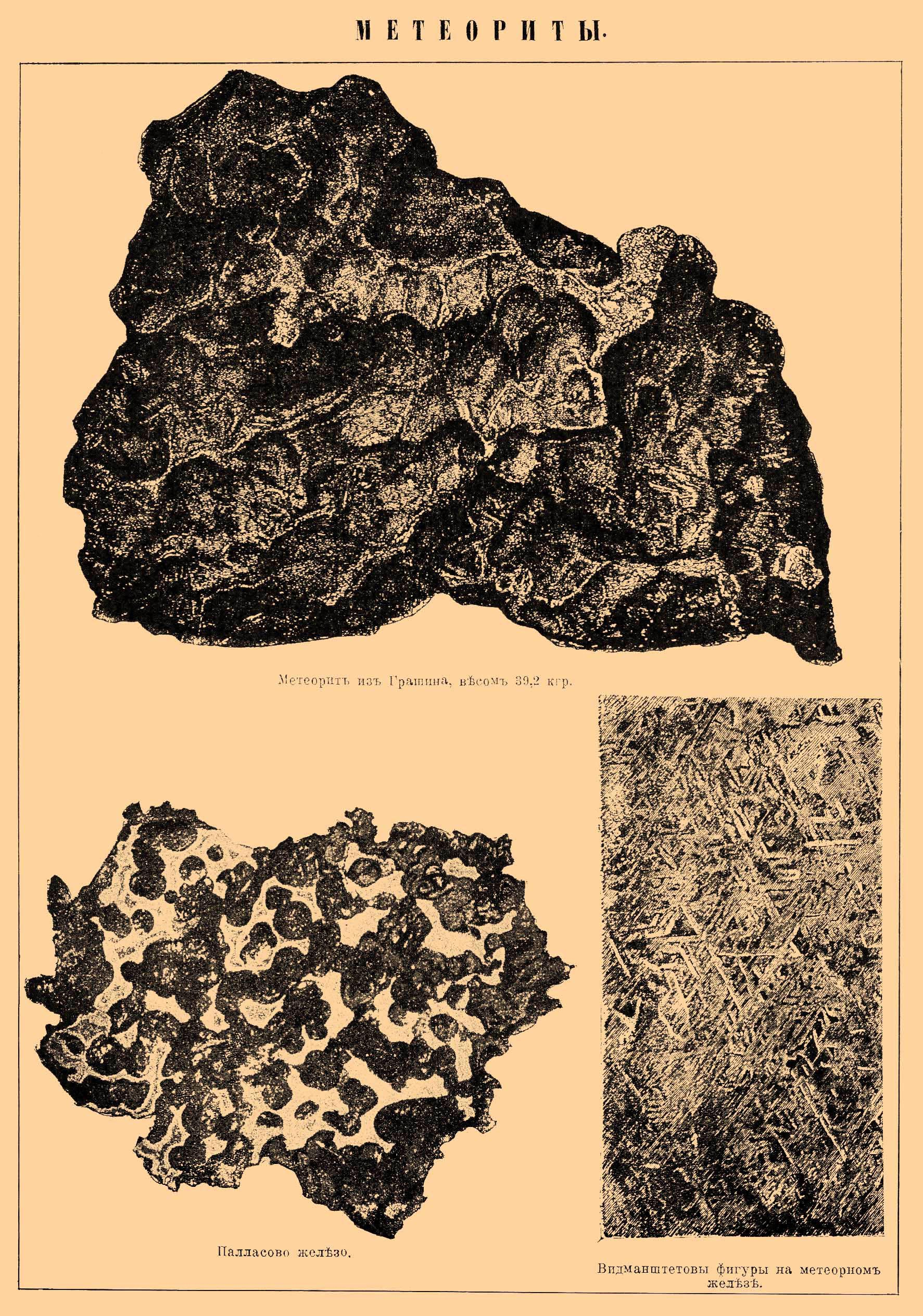 Illustration from Brockhaus and Efron Encyclopedic Dictionary (1890—1907). МЕТЕОРИТЫ. 1. Метеорит из Грашина, весом 39,2 кг. 2. Палласово железо. 3. Видманштетовы фигуры на метеорном железе.